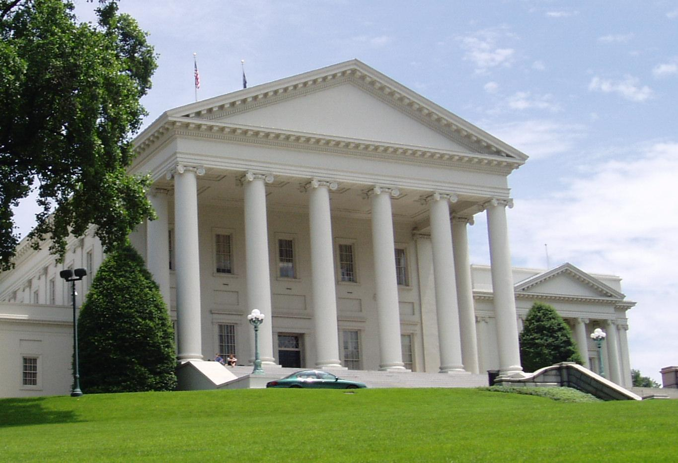 Photo of the Virginia State Capitol before renovations.